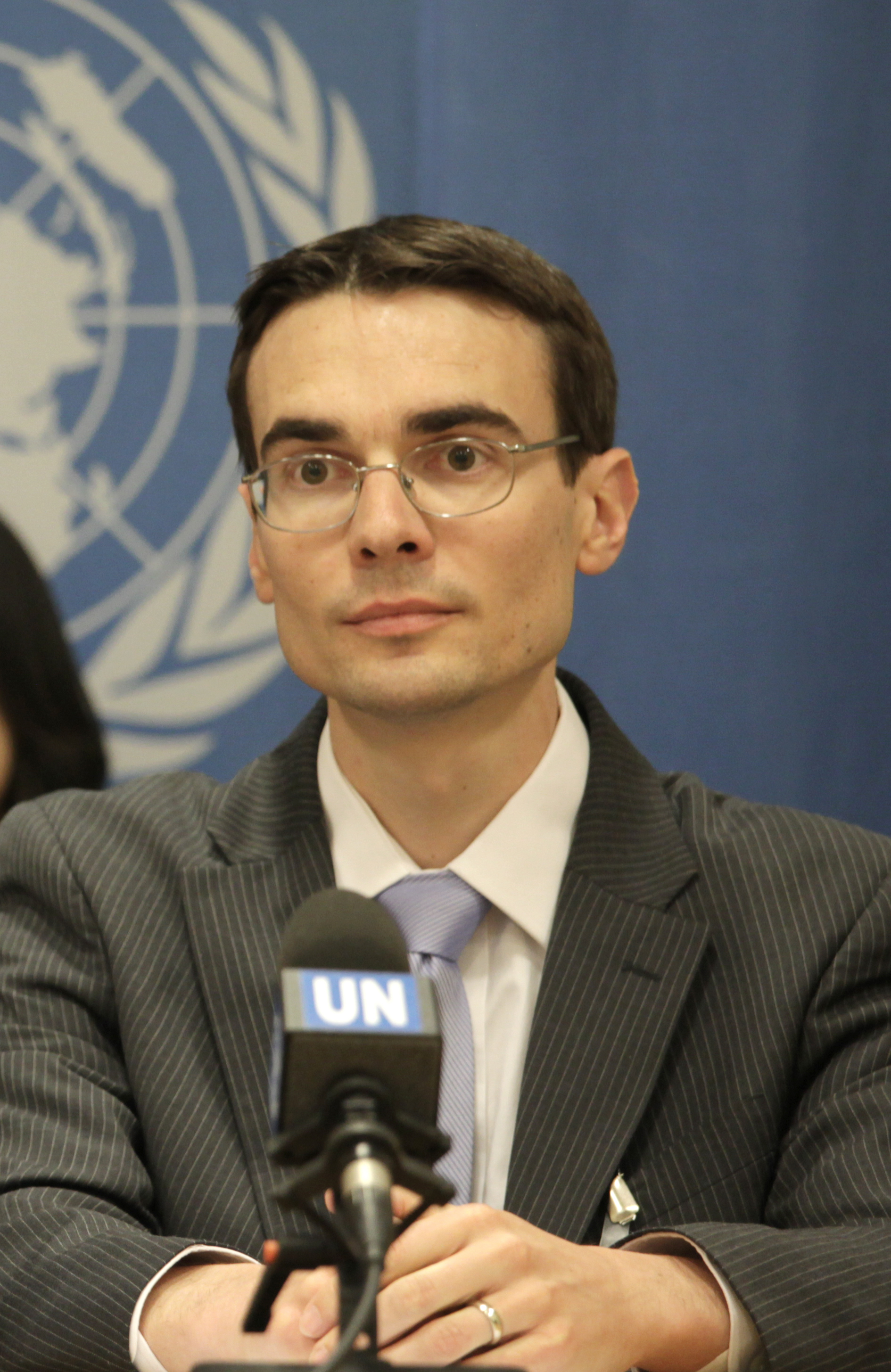 Ben Scott at press conference with Internet Freedom Fellows in Geneva, June 9, 2011